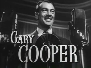 Cropped screenshot of Gary Cooper from the trailer for the film Meet John Doe